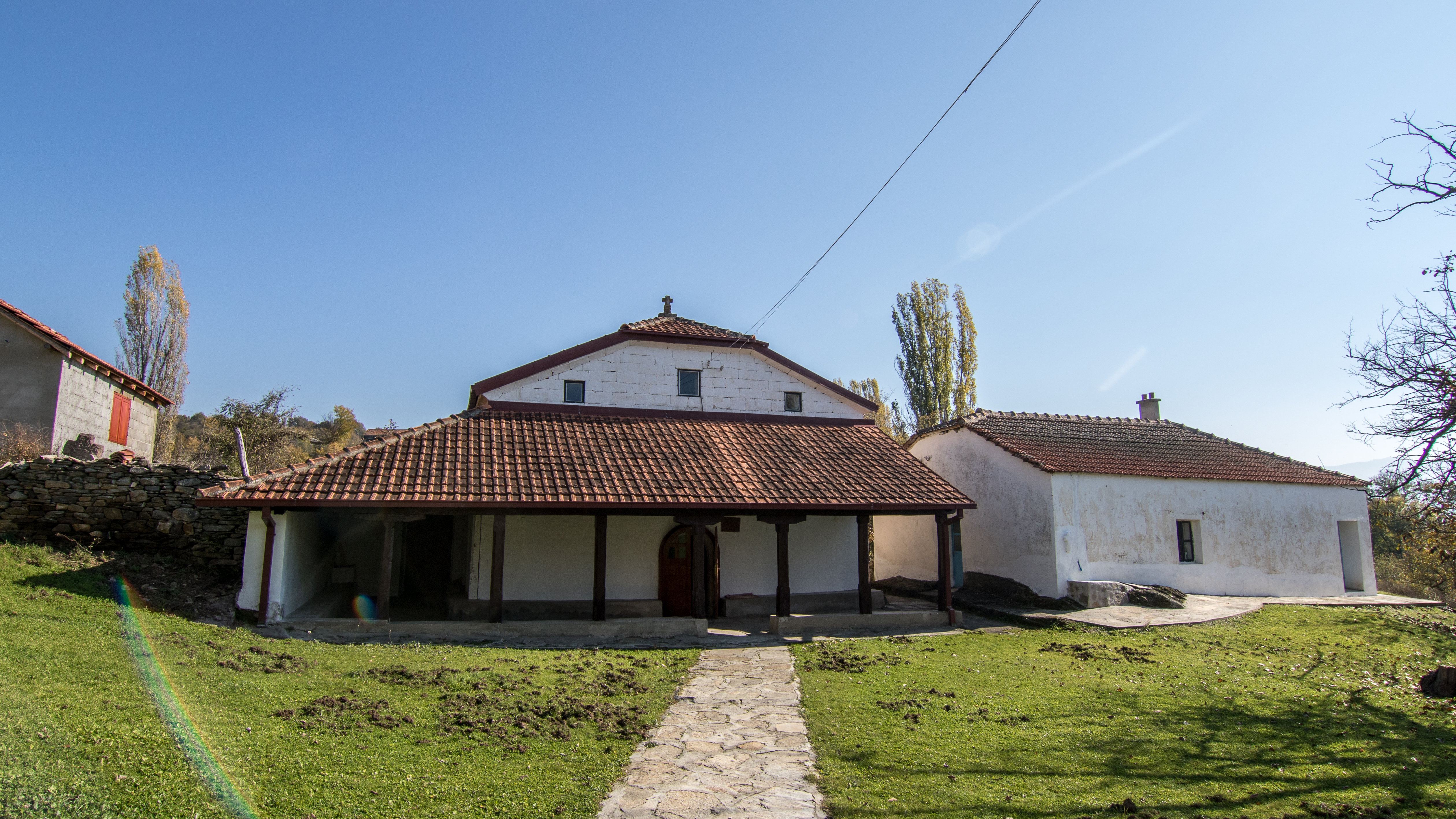 View of the St. Petka Church in the village Radibuš